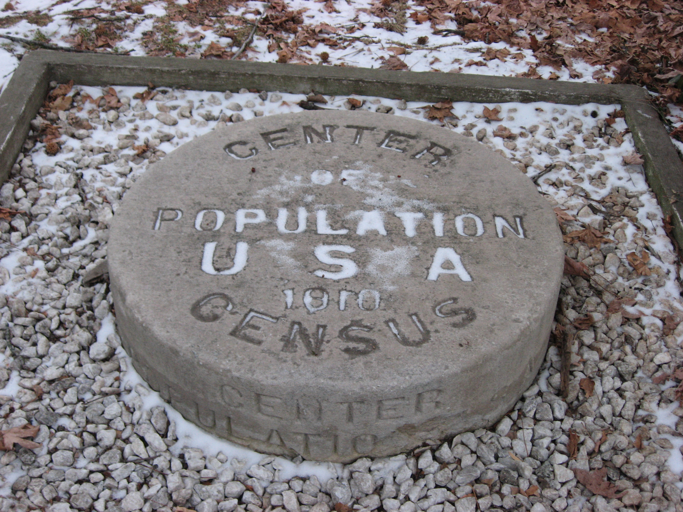 A slab on the southern portion of the grounds of the Monroe County Courthouse, located on Courthouse Square in downtown Bloomington, Indiana, United States. Placed to mark the appoximate location of the mean center of United States population in 1910, it and several other commemorative objects on the courthouse lawn are part of the area listed on the National Register of Historic Places in connection with the courthouse itself.